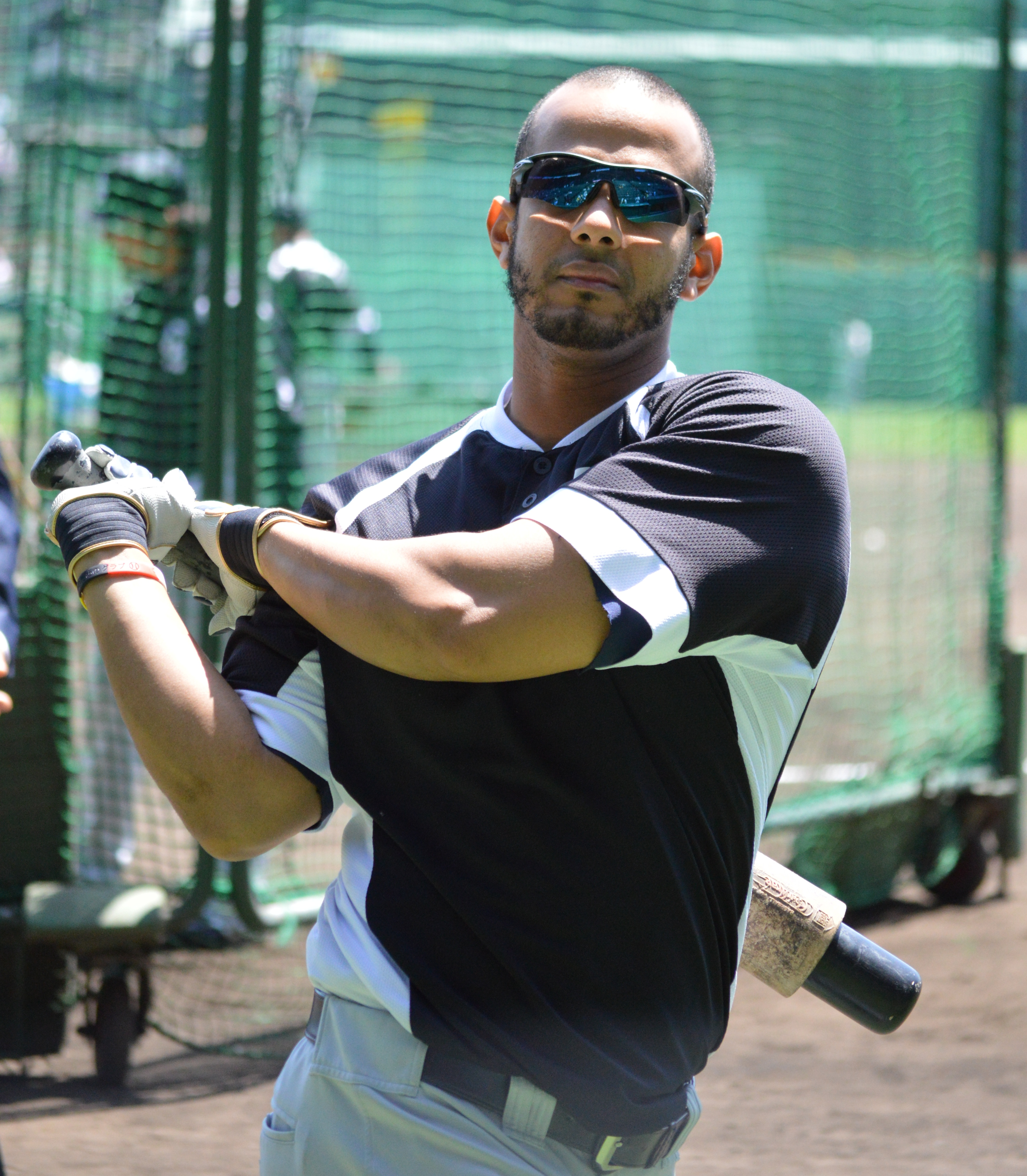 Ricardo Nanita, outfielder of the Chunichi Dragons, at Hanshin Koshien Stadium.